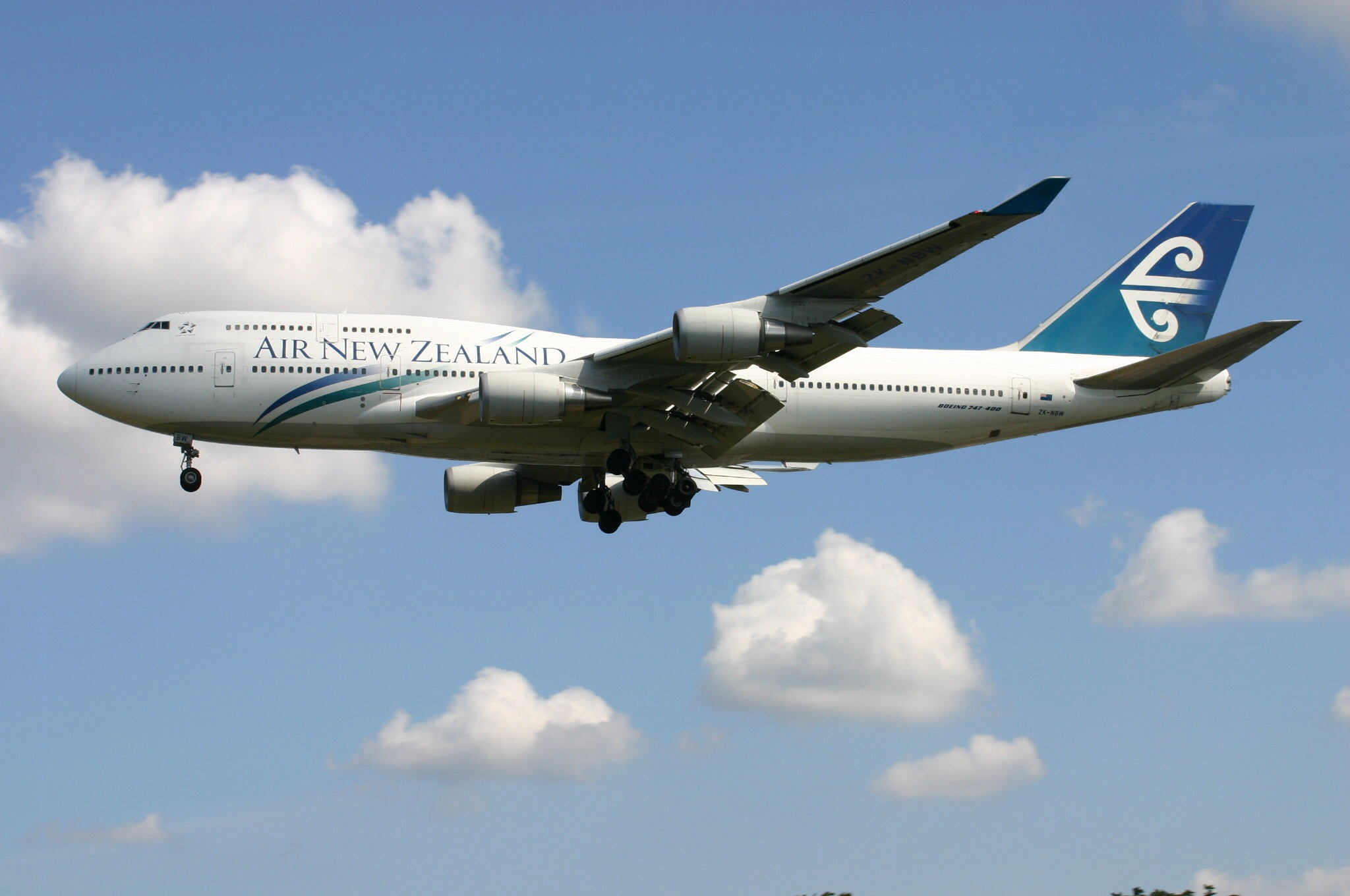 At London Heathrow